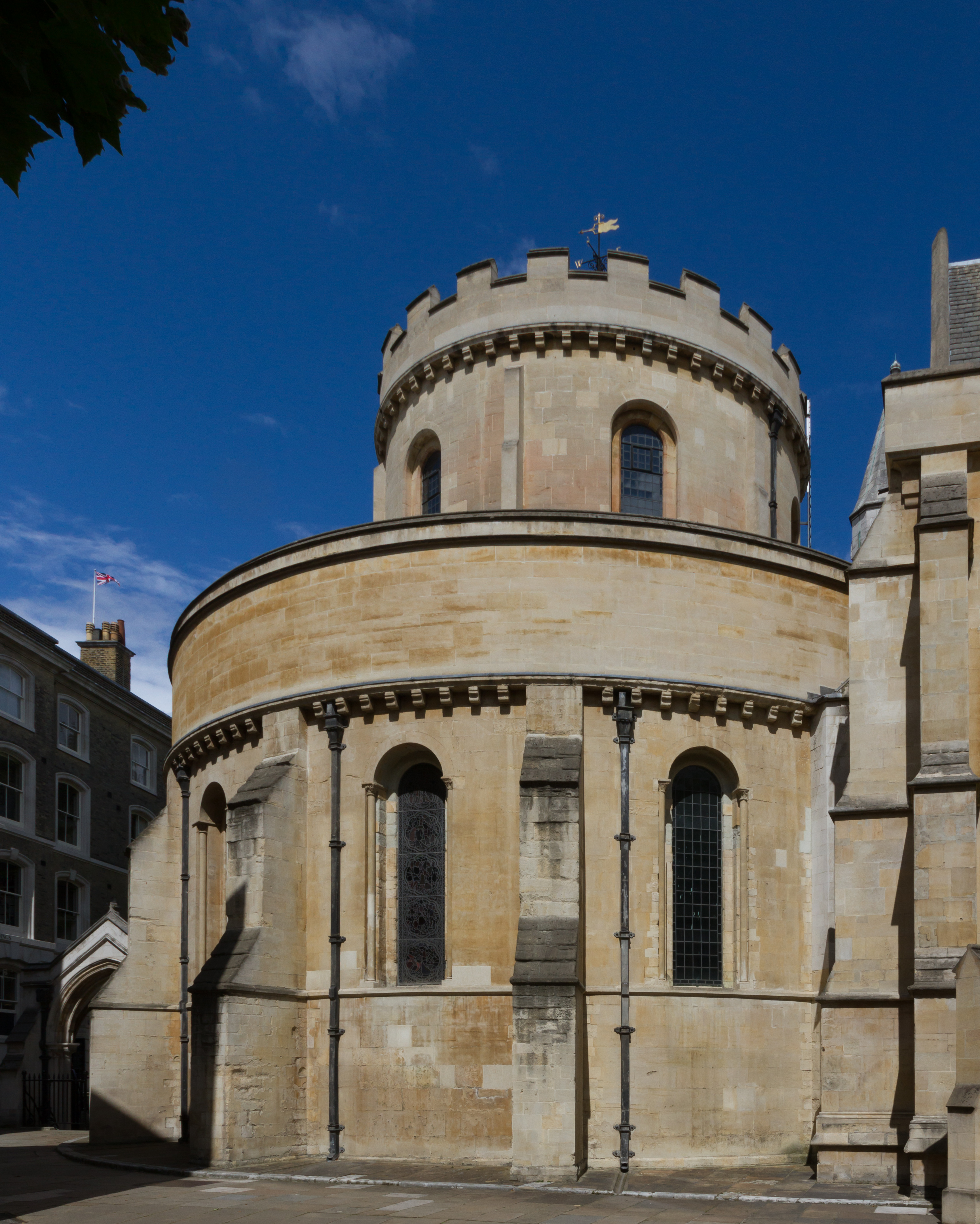 Temple Church, London